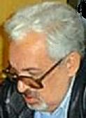 Vladimir Bagirov, Senior Chess World Championship 1998 at Grieskirchen, Photographer Gerhard Hund.